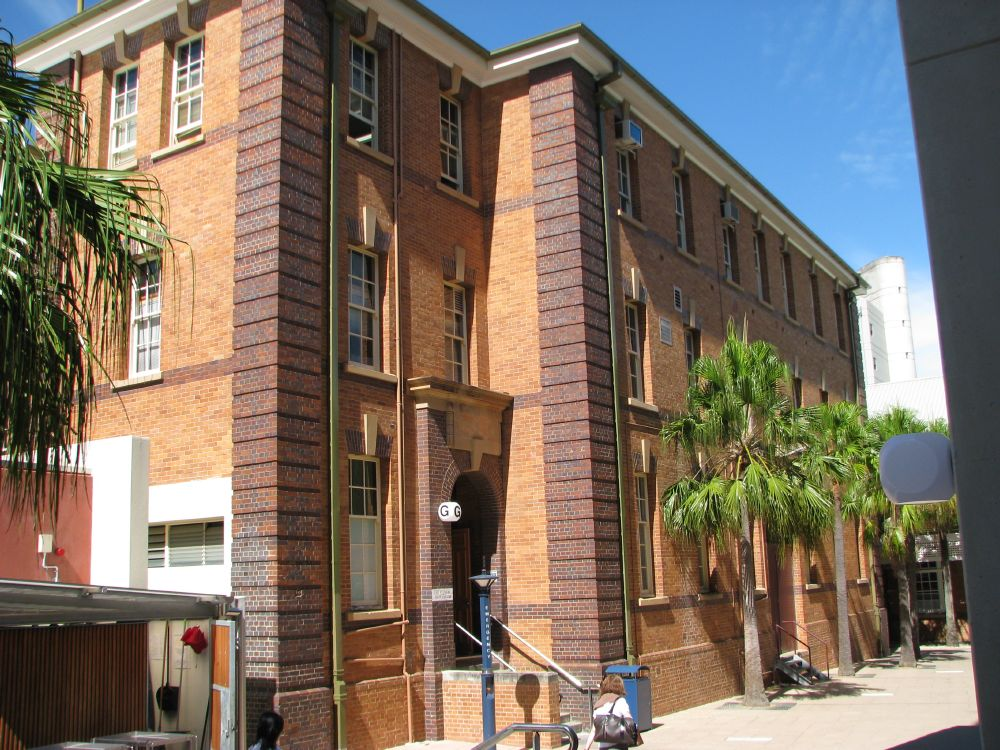 Brisbane Central Technical College (G block), QUT (G block), 2008